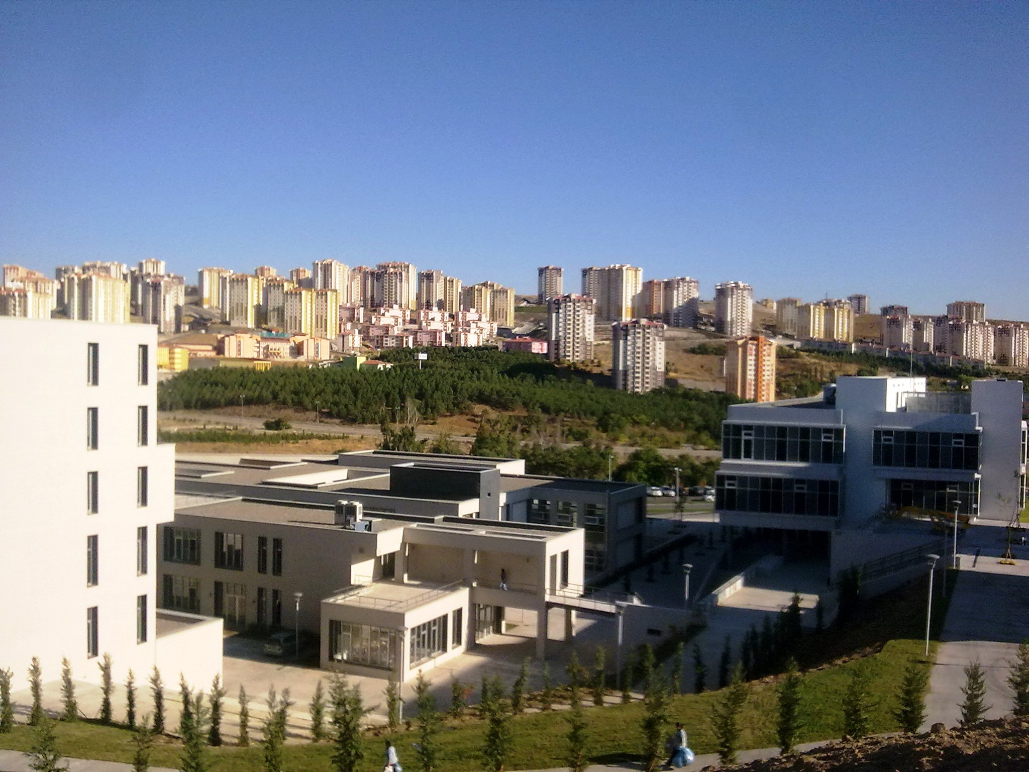 A view of the Çankaya University Turkuaz campusTürkçe: Çankaya Üniversitesi'nin Turkuaz kampüsünden bir görünüm